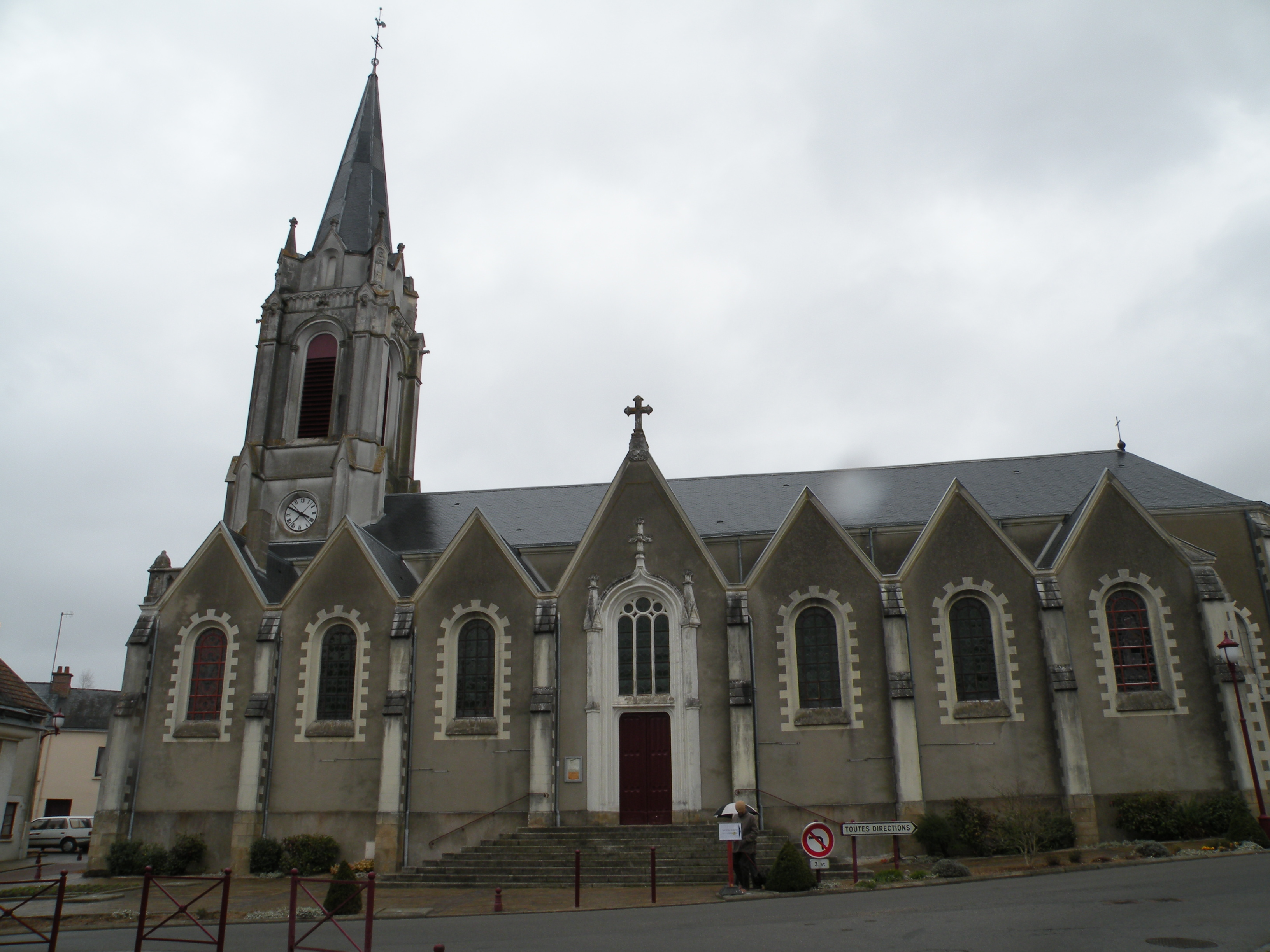 Church of Sucé-sur-Erdre